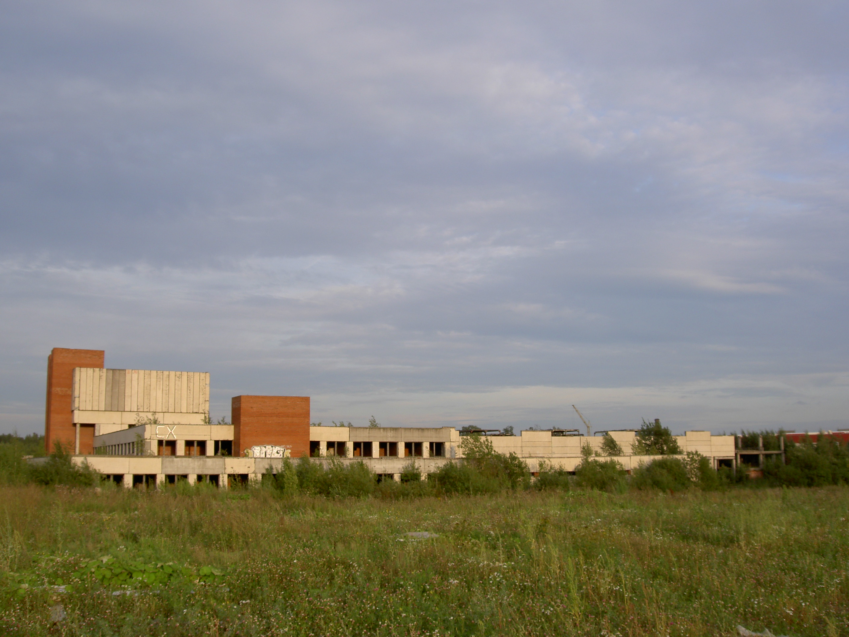 Saint Petersburg. Uncompleted tram depot № 11.